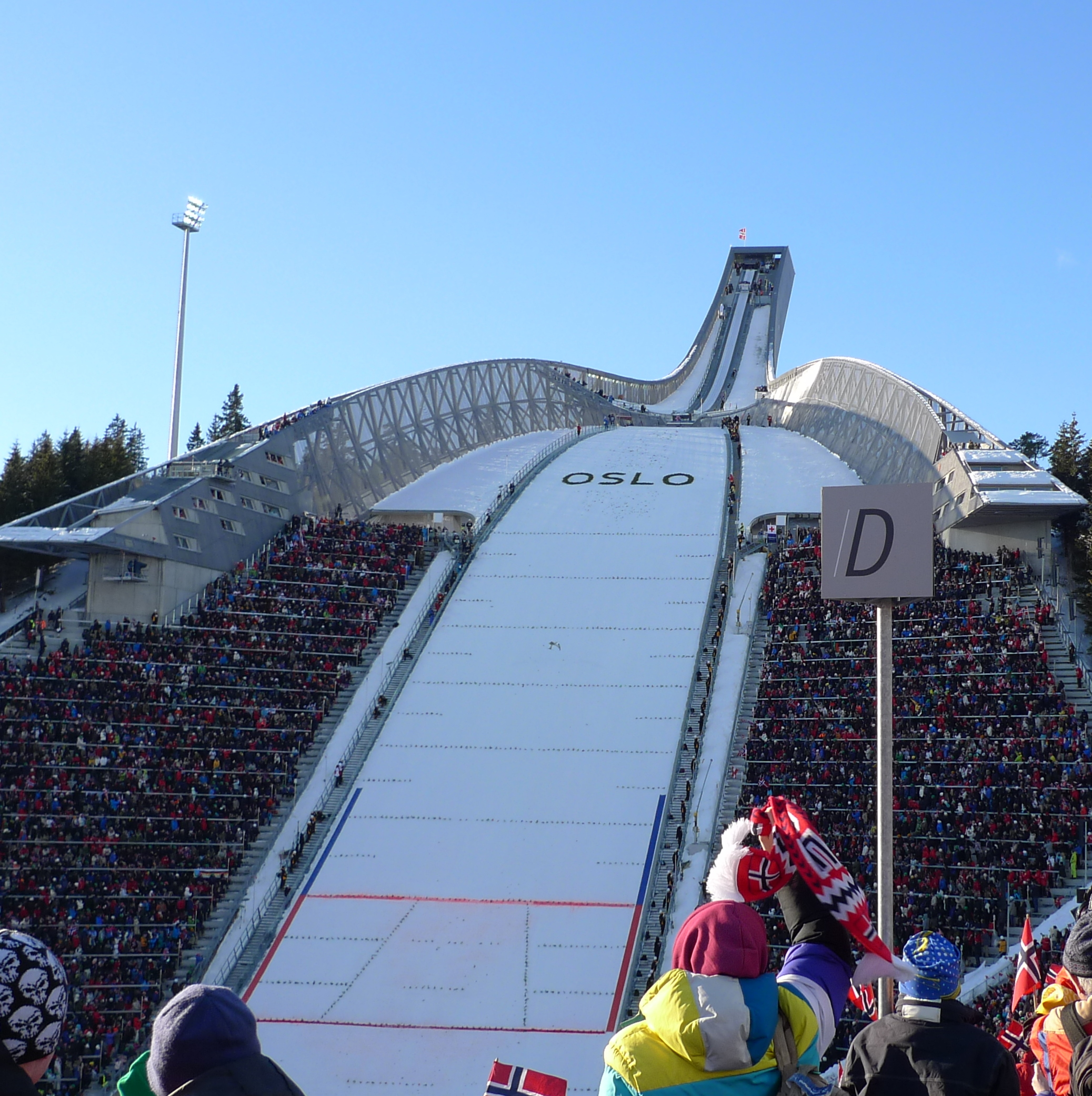 Austrian ski jumper Anderas Kofler gets the new record in Holmenkollen, Oslo, Norway at 141 meters.